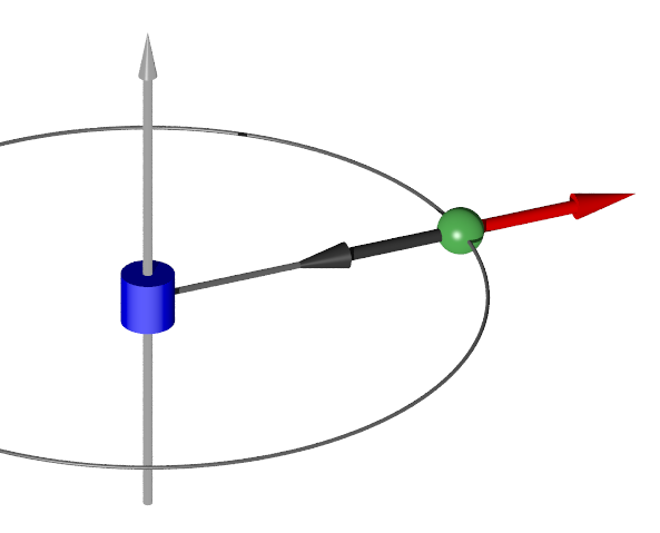 Centrifugal force